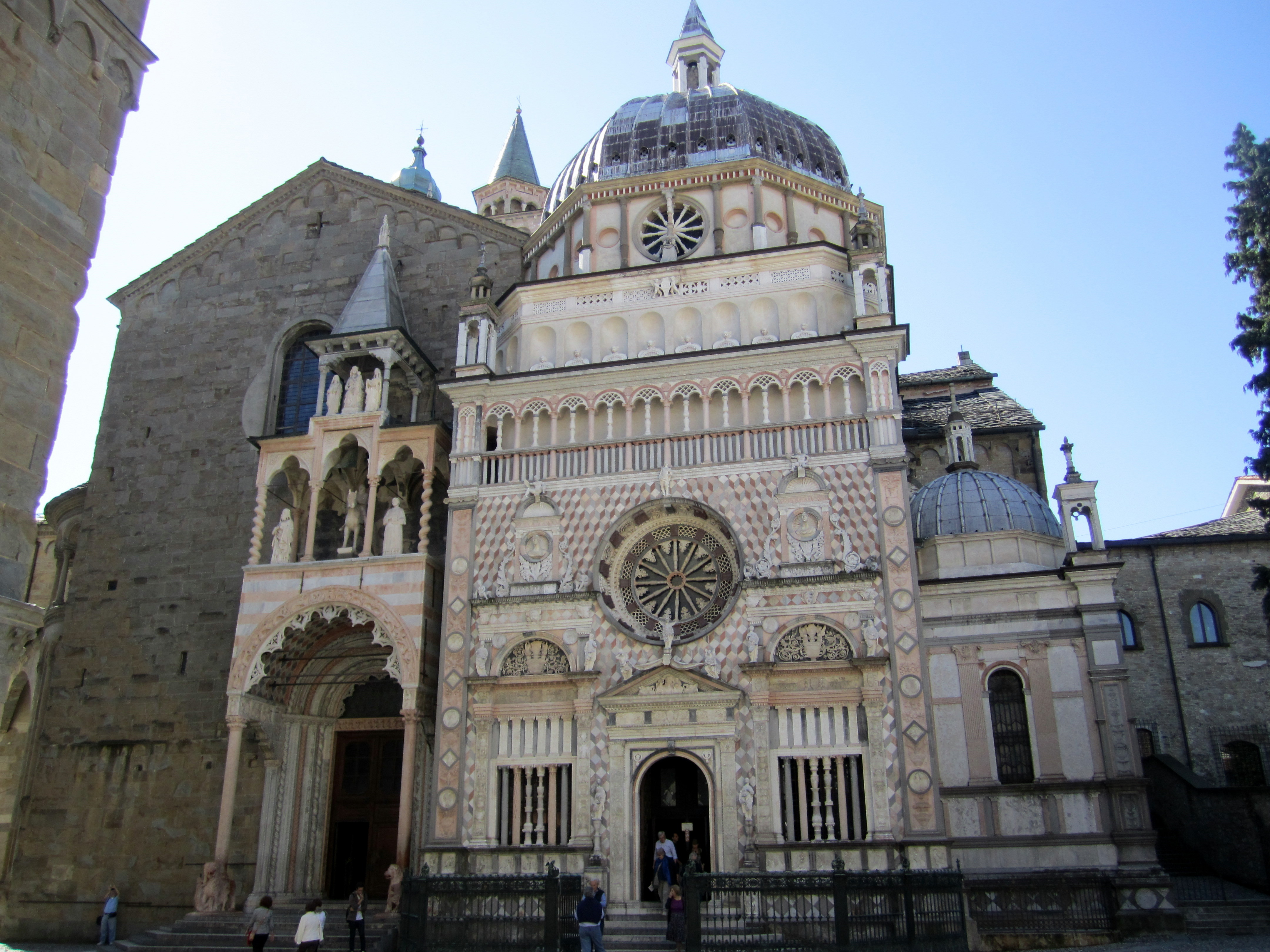 Santa Maria Maggiore (Bergamo)_north